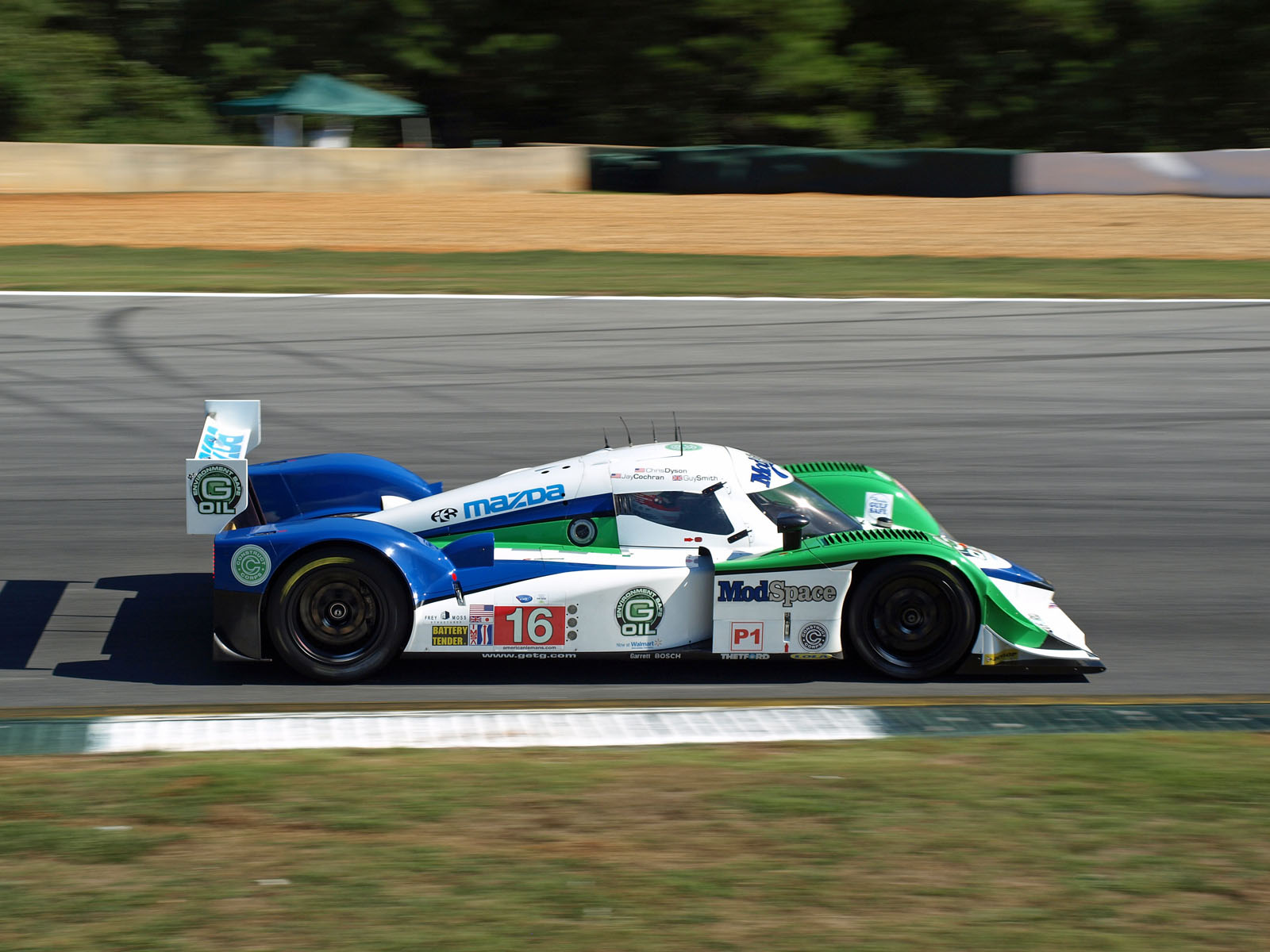 Chris Dyson driving the Dyson Racing Lola B09/86 in qualifying for the 2011 Petit Le Mans at Road Atlanta.